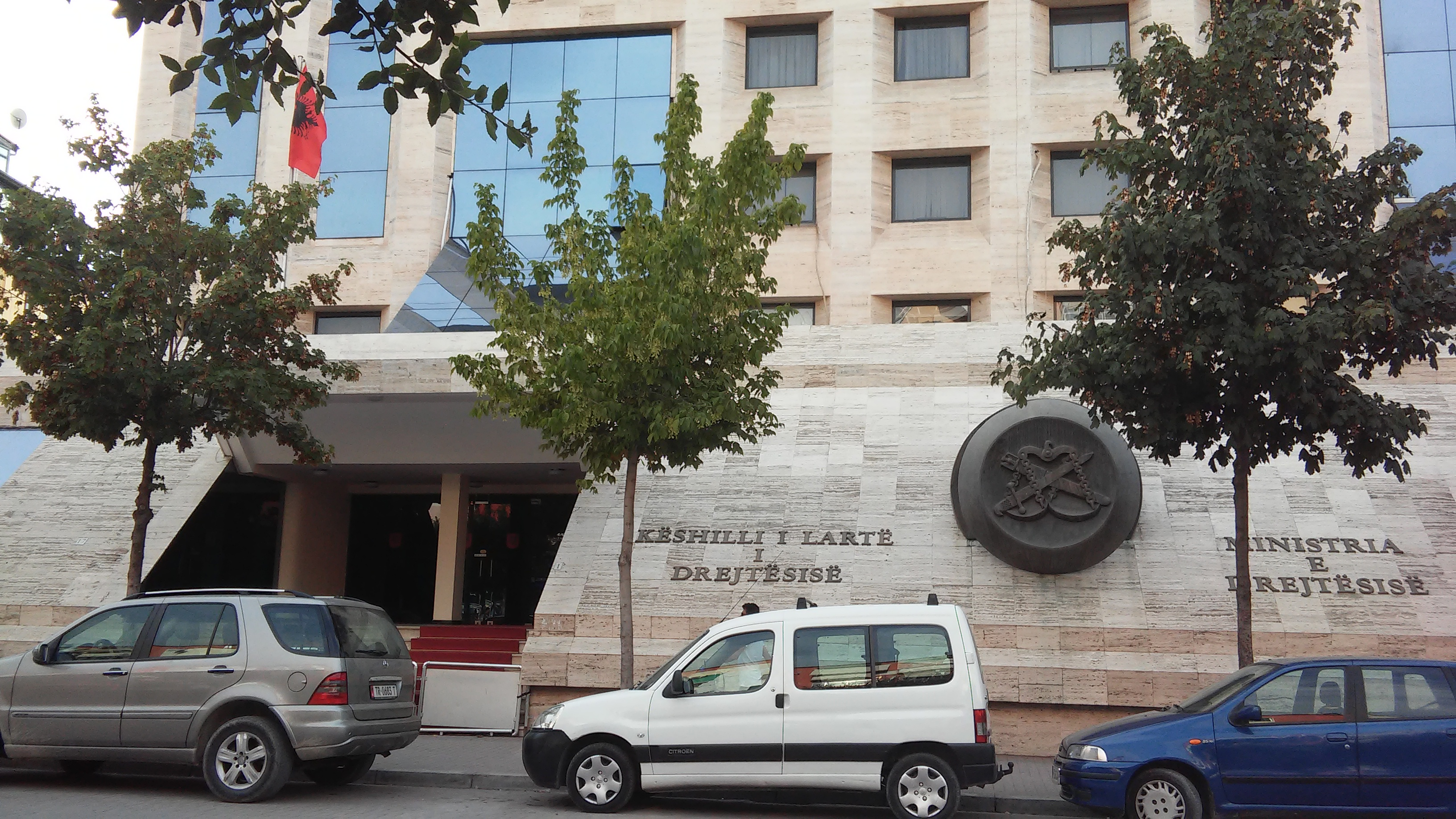 High Court, Tiranë, Albania